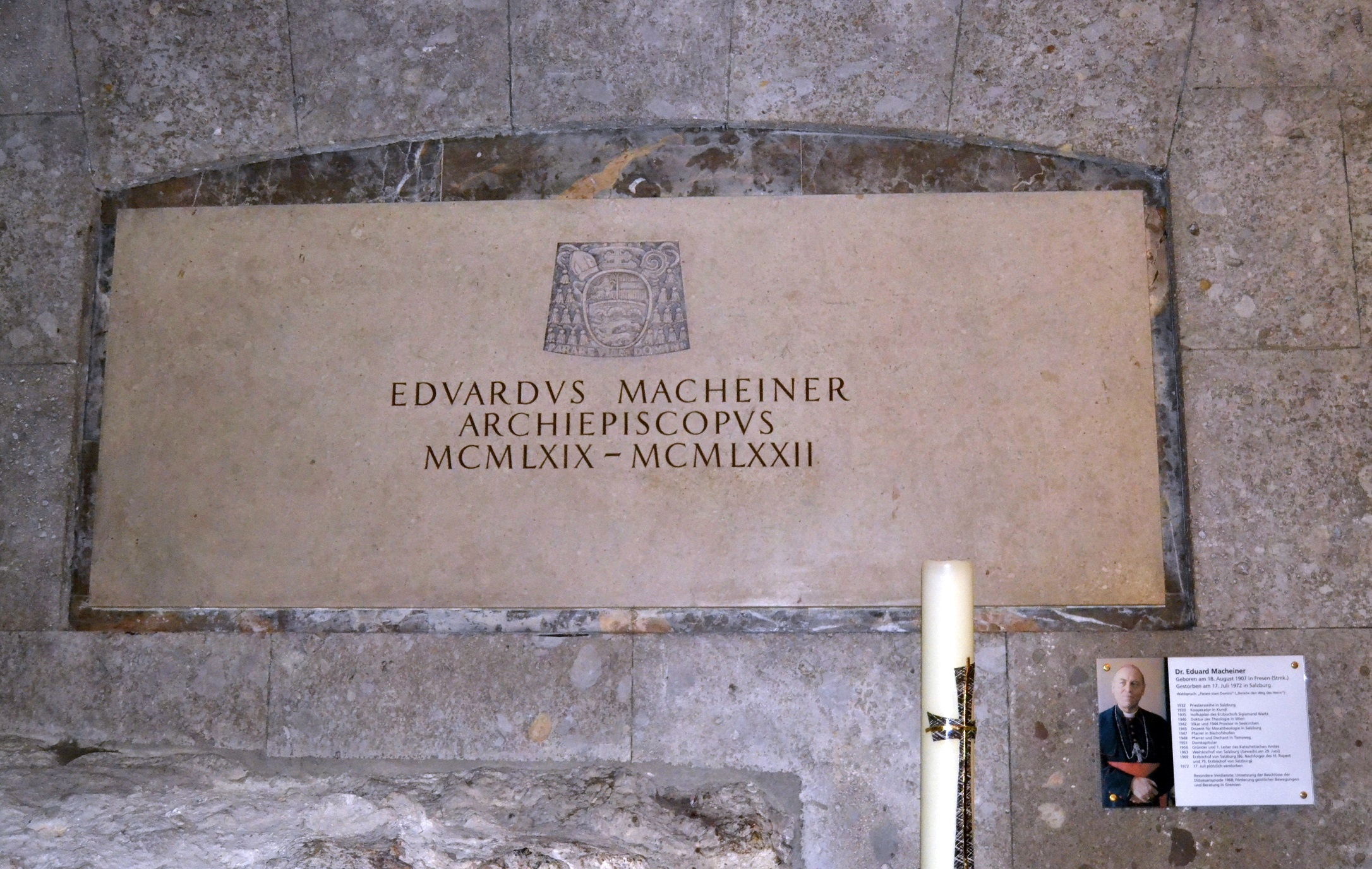 Krypta (Salzburger Dom) room 3: tomb of Archibshop Eduard Macheiner